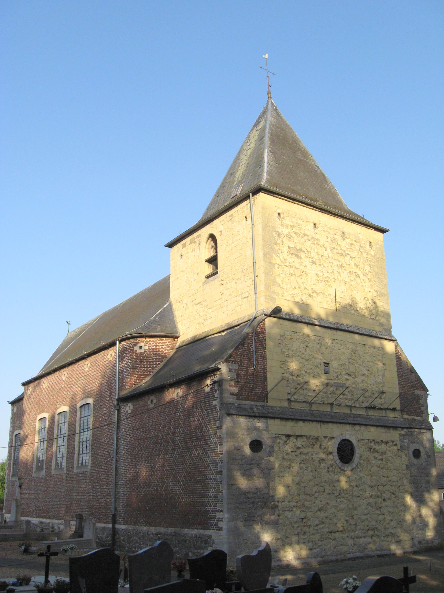 Church of Saint Peter and Paul in Linsmeau, Hélécine, Walloon Brabant, Belgium